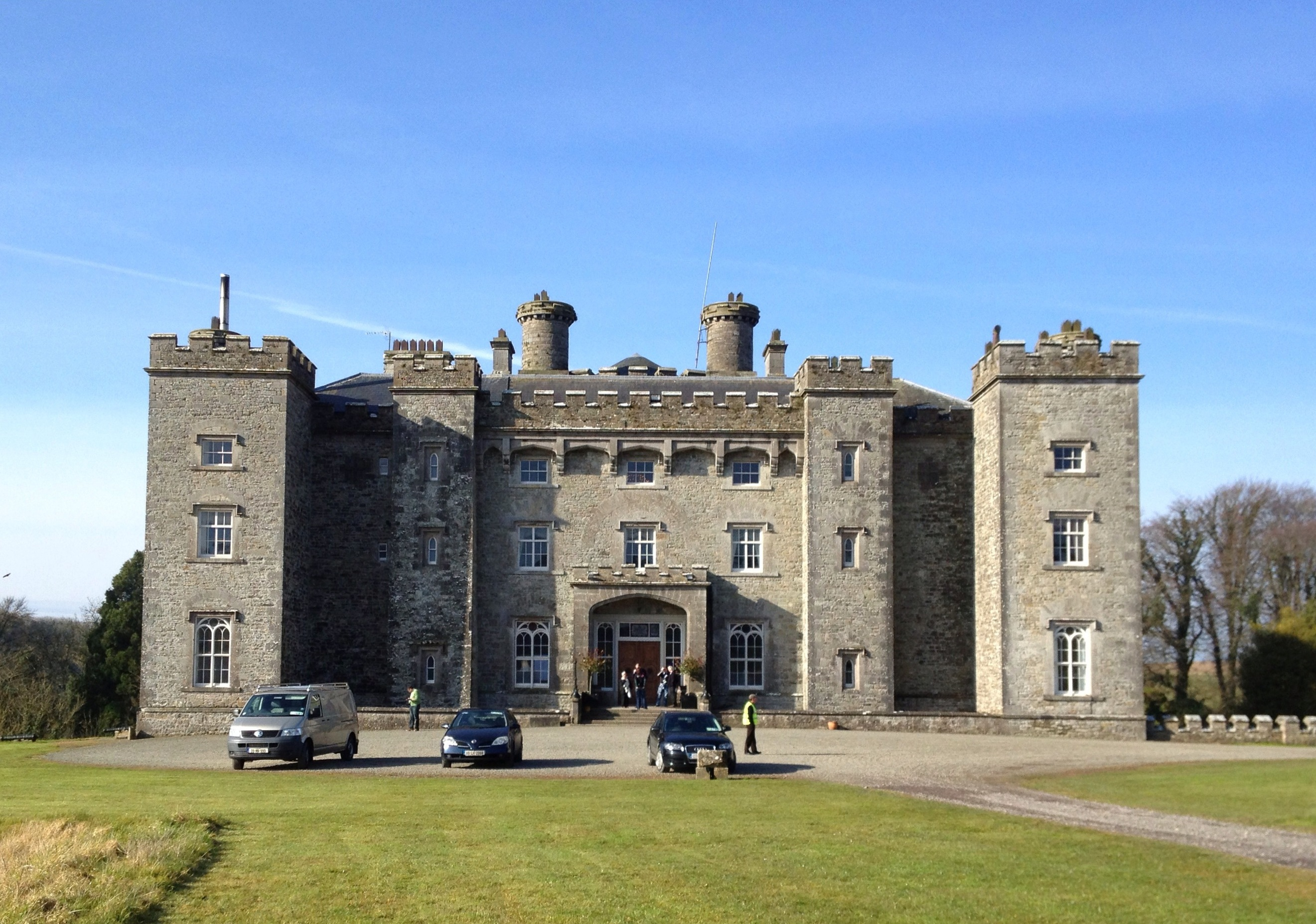 Front of Slane Castle, County Meath, Ireland in 2013